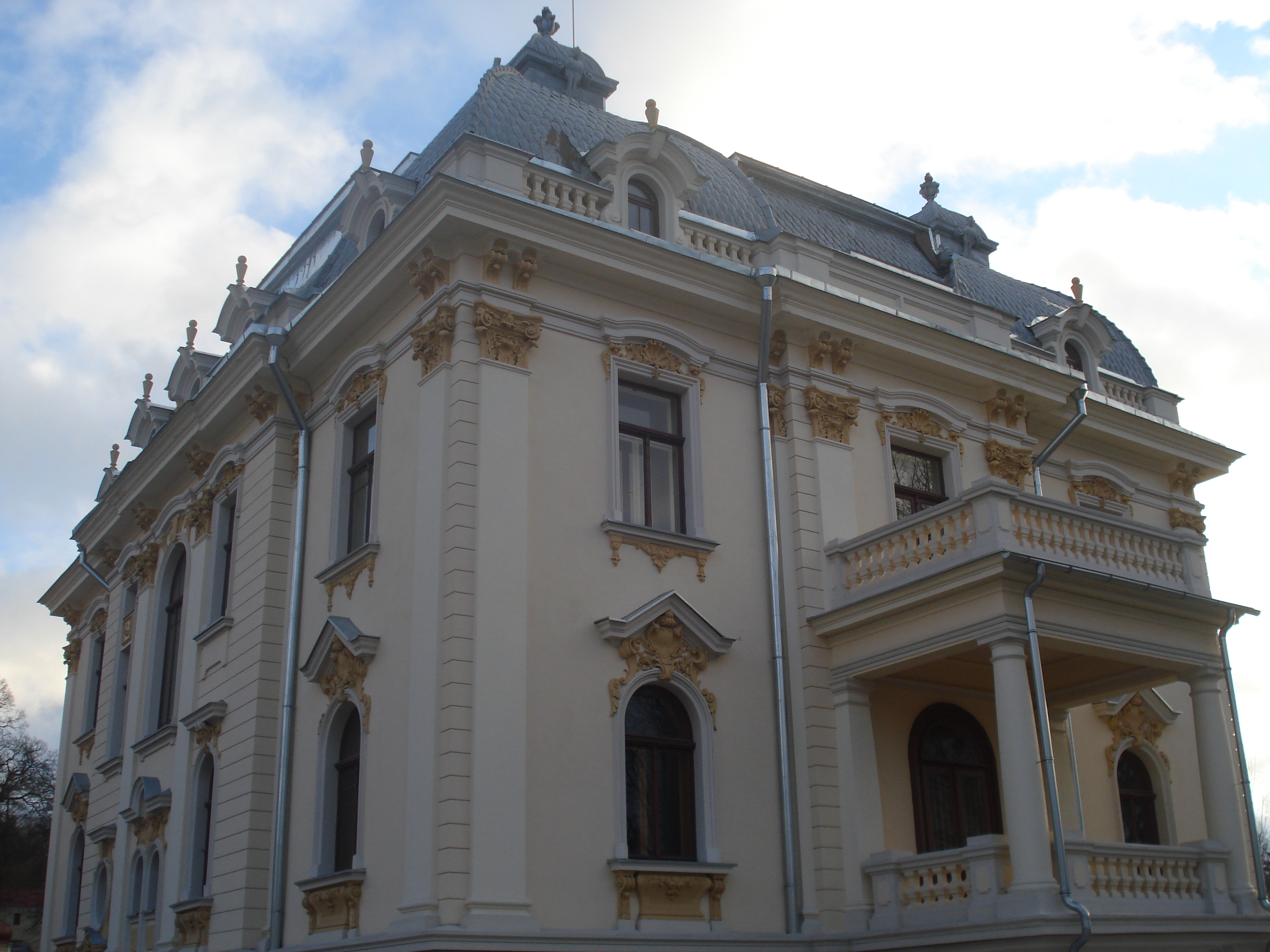 The Institute of Lithuanian Literature and Folklore in the palace of the Vileišis family (designed by August Klein, erected by Lithuanian engineer Petras Vileišisin in 1904-1906). Back elevation. Vilnius, Antakalnio g. 6